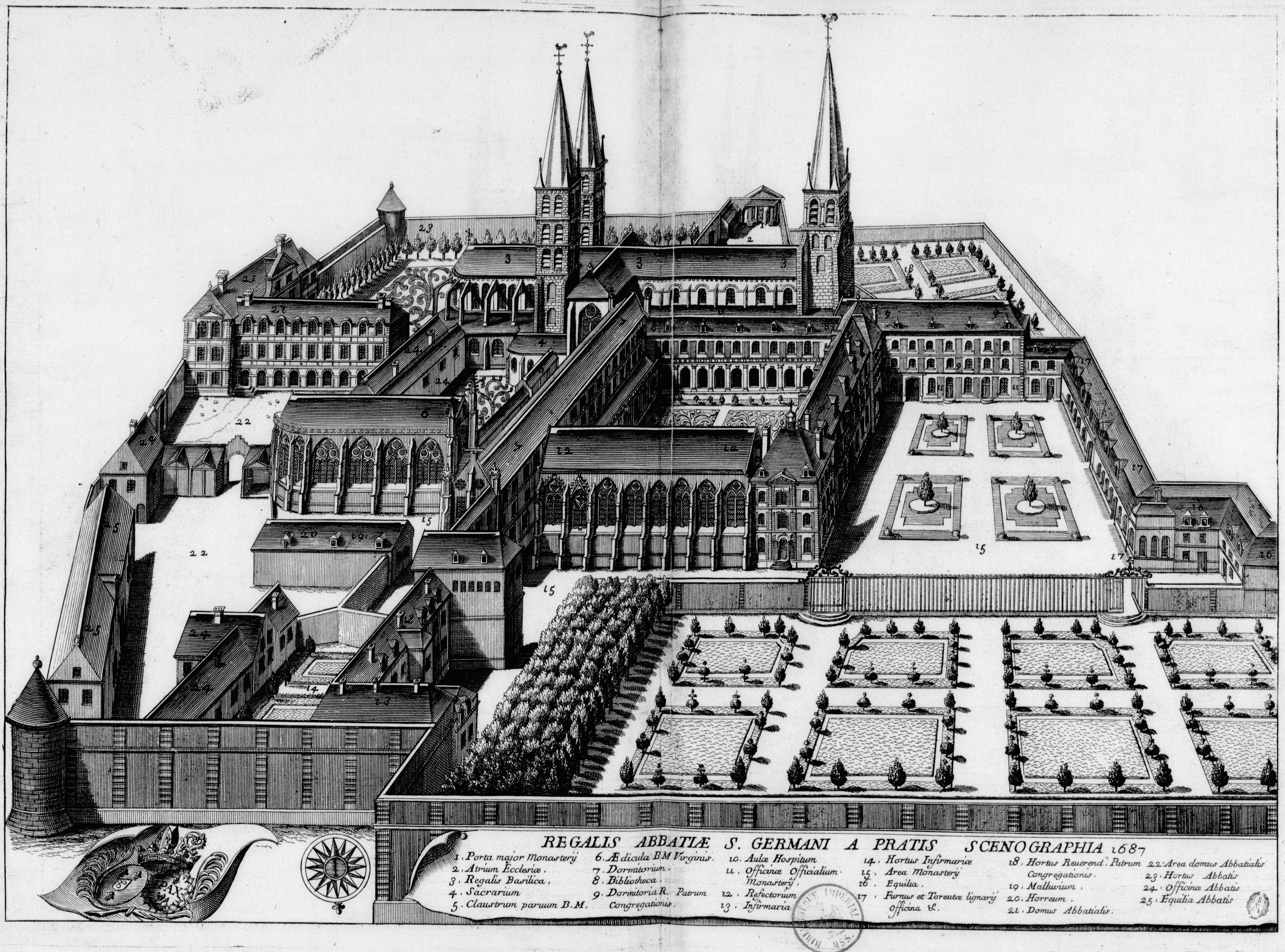 Plate from 1687, showing the abbey of St. Germain des Prés in Paris.